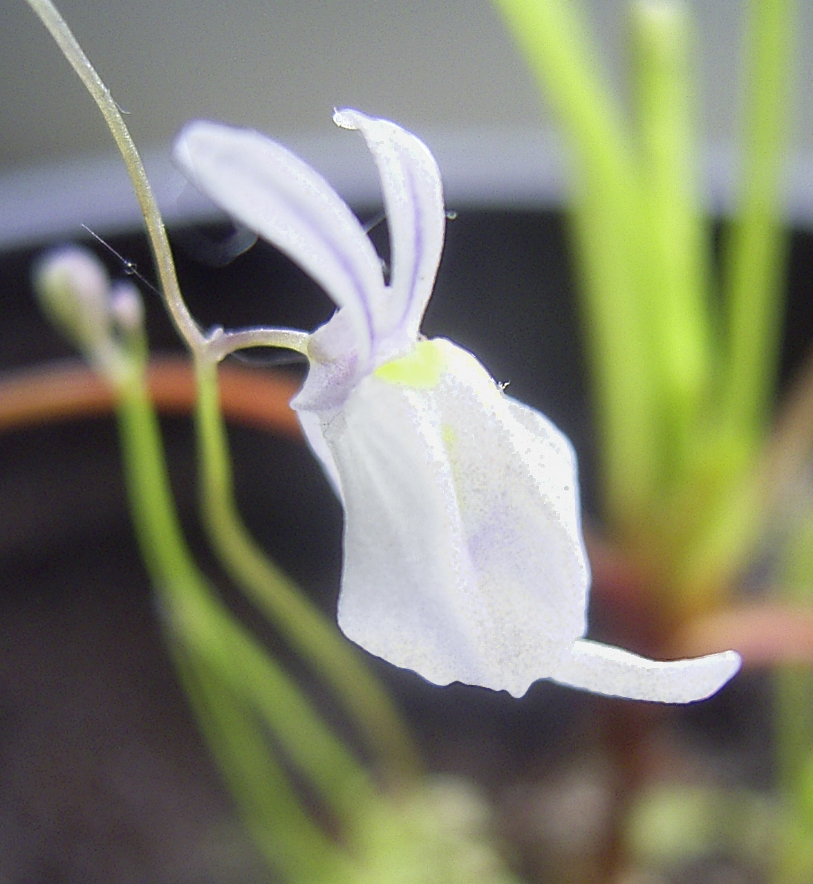 Utricularia Sandersonii Flower Author: Denis Barthel